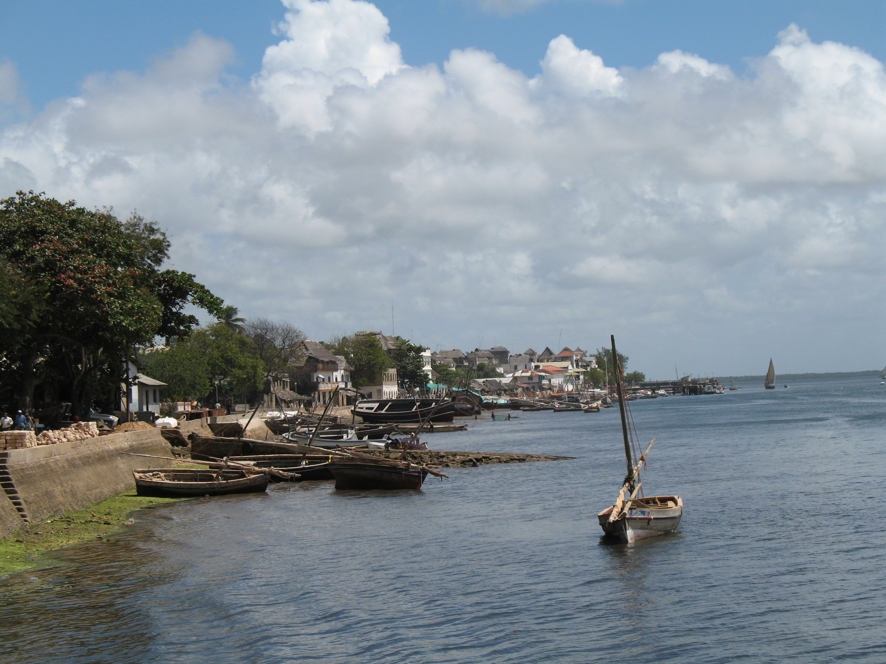 The seafront of Lamu town in Lamu Island, Kenya.